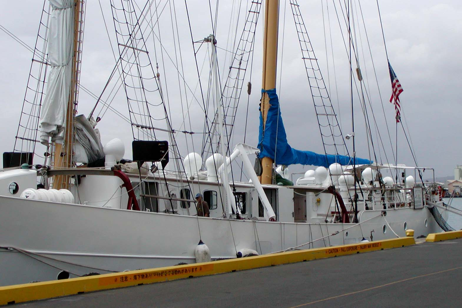 Photo of brigantine Robert C. Seamans in Honolulu harbor